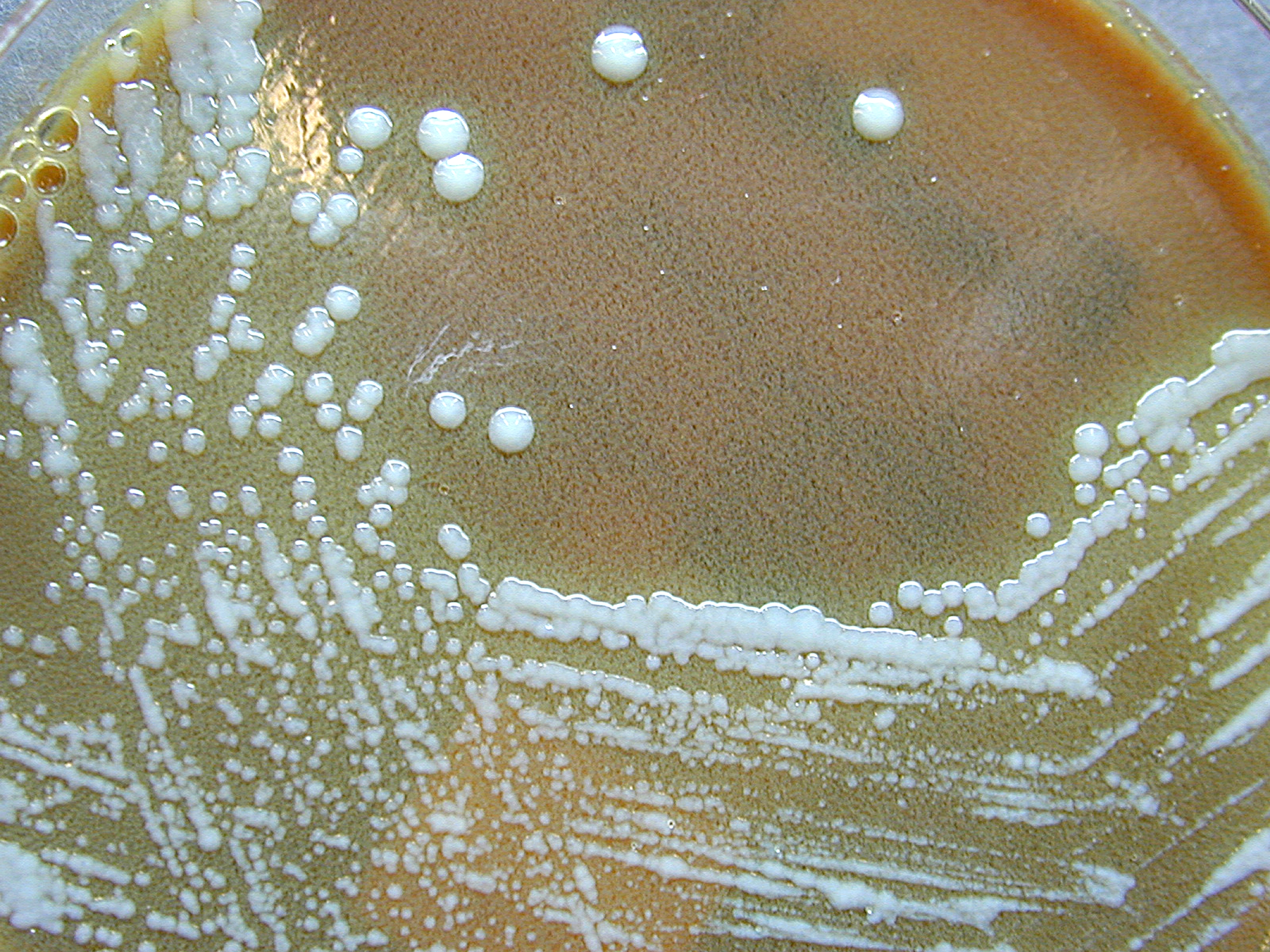 Francisella tularensis colonization on Cysteine Heart Agar after 72 hours. Obtained from the CDC Public Health Image Library. Image credit: CDC/Larry Stauffer, Oregon State Public Health Laboratory (PHIL #1910), 2002.